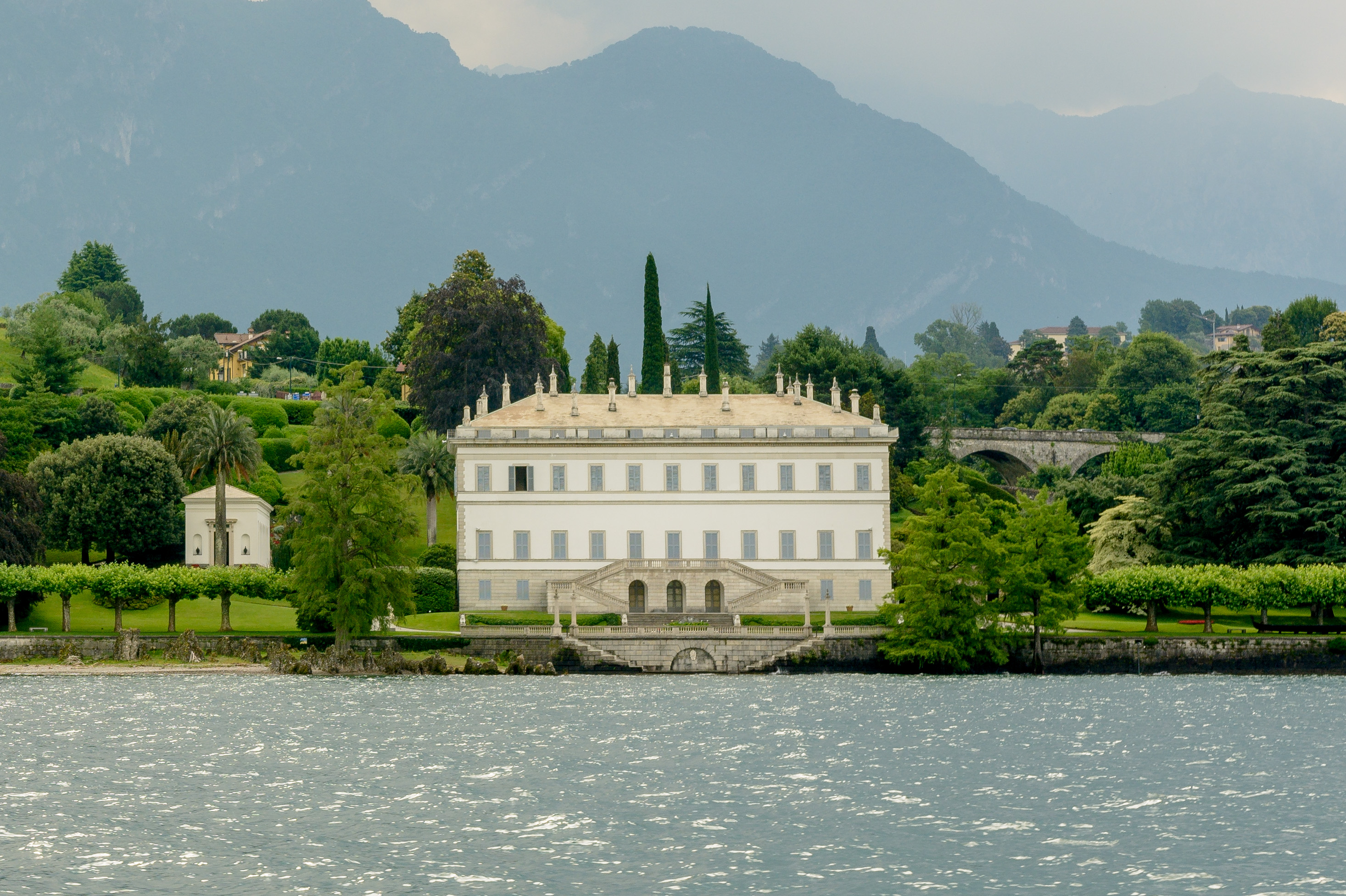 Villa Melzi (Bellagio)